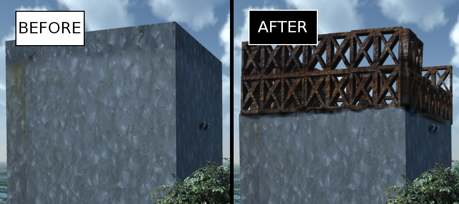 Before and after computer graphic image visualizations of the hydrogen explosion at Fukushima I Unit 1 reactor. This is to replace the blurry copyrighted image currently in use in the matching article.I am thinking that the image depicts the same thing close enough that it can be used instead of the copyrighted image. I hope this isn't too poor quality work, and in any case I honestly tried hard to make this with whatever limited skills I have. If there is any feedback, I'd be happy to hear it. Cheers.